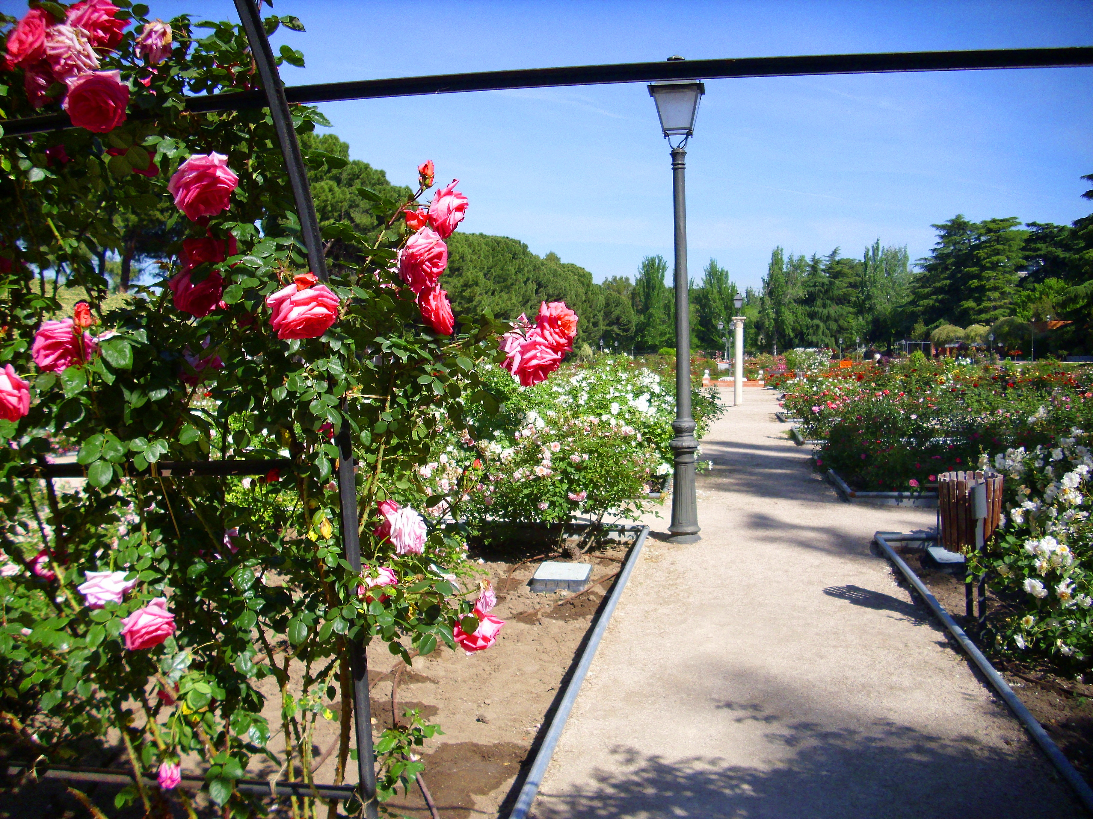 Rose garden of Parque del Oeste View, Madrid